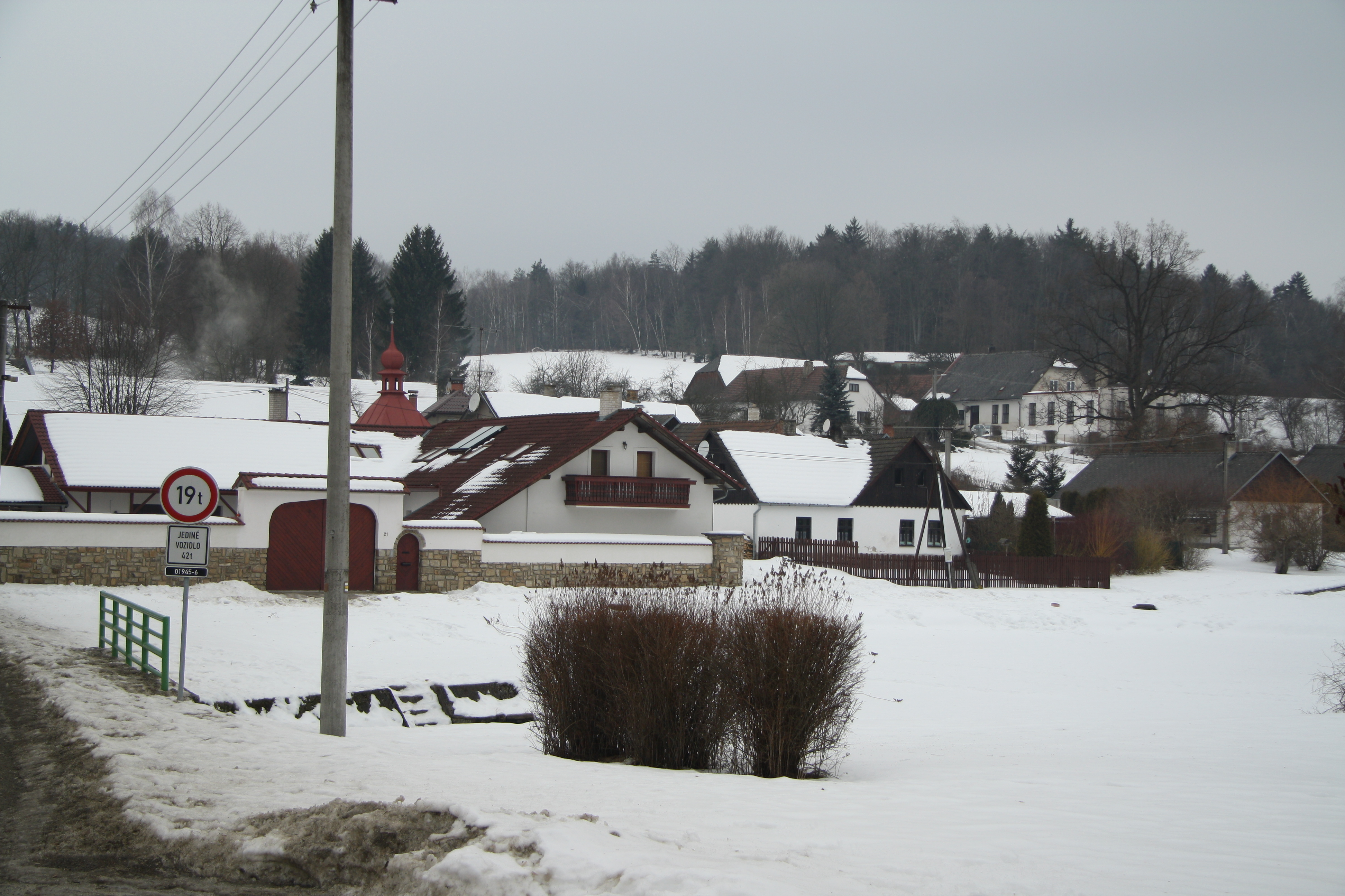 Center of Ježená, Jihlava District.